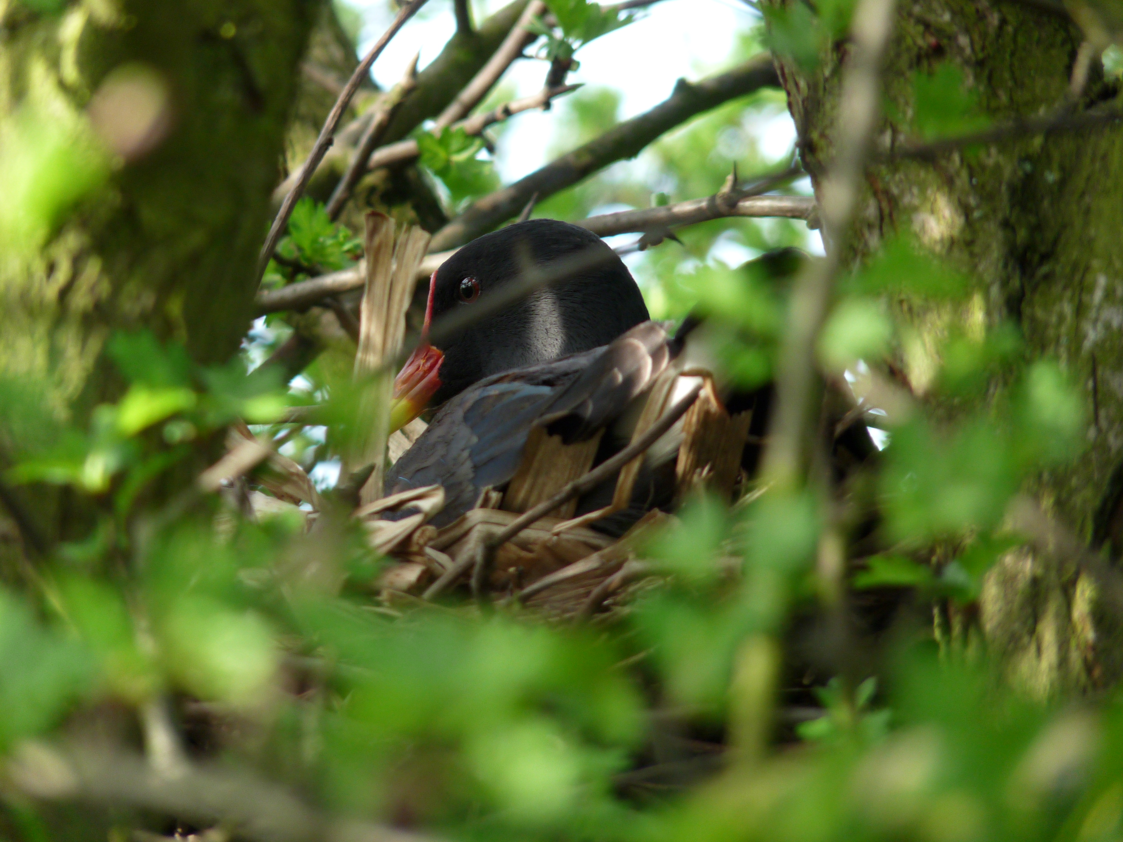 This bird aint daft, its made its nest in a hawthorn tree away from pesky... Latin name Gallinula chloropus Family Rails (Rallidae) Overview ... Where to see them Around any pond, lake, stream or river, or even ditches in farmland. Moorhens... When to see them Any time of year, and any time of day. You might even hear them calling at night . What they eat Water plants, seeds, fruit, grasses, insects, snails, worms and small fish.